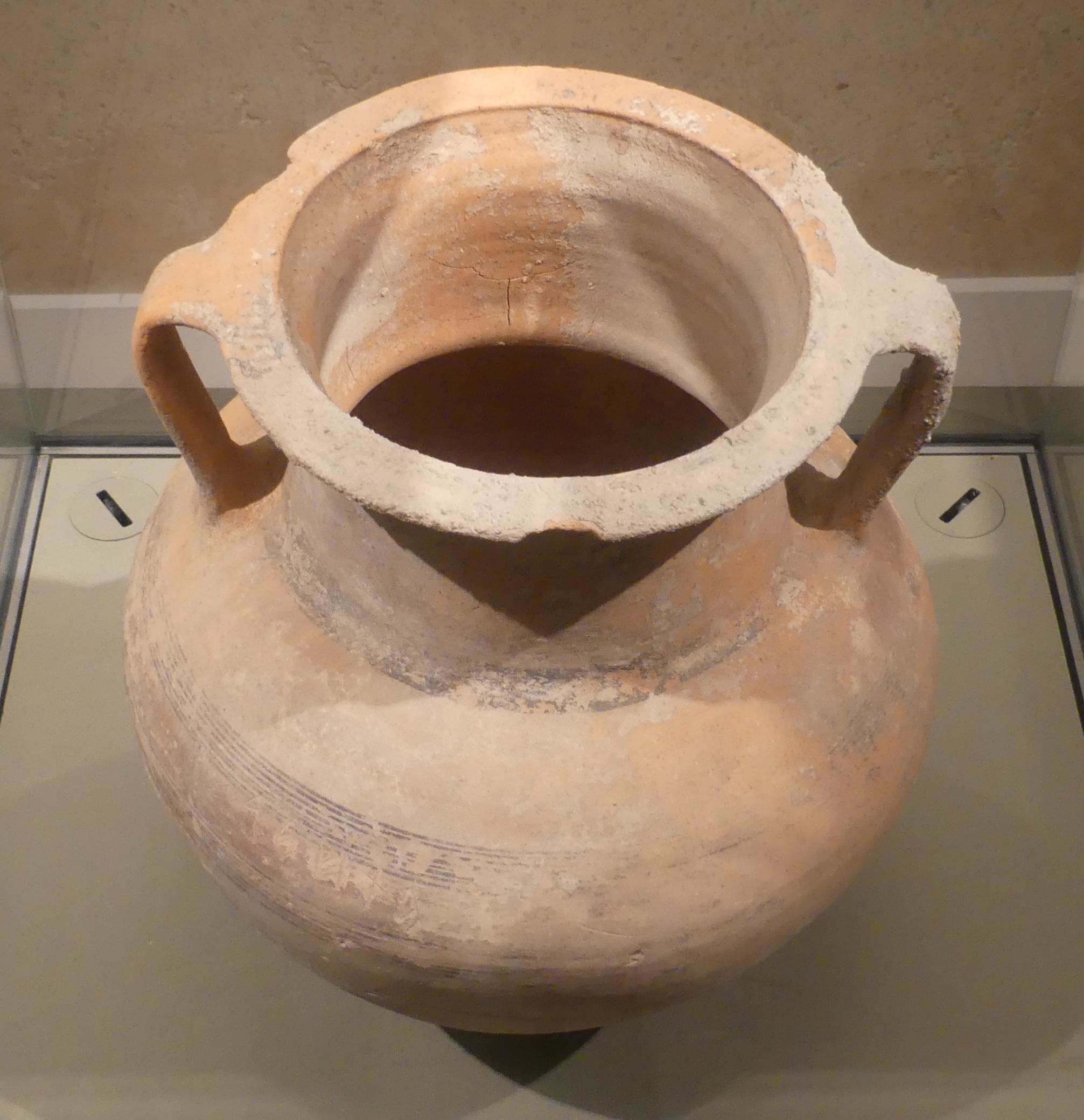 "Amphora with Phoenician inscription mentioning the volume, the bat = 22 liters Terracotta Tell Rachidieh, Iron Age II" On display in the basement of the National Museum of Beirut, Lebanon